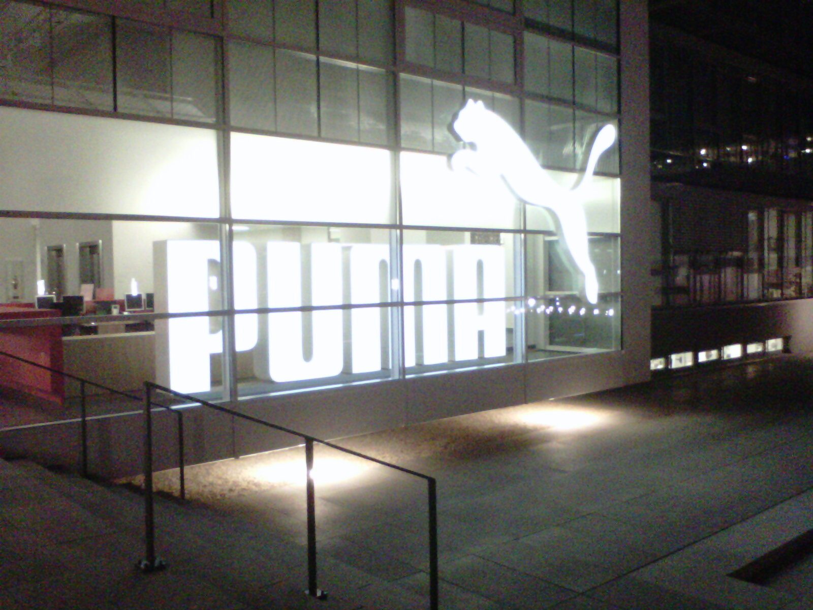 Entrance to the PUMAVision Headquarters in Herzogenaurach, Germany